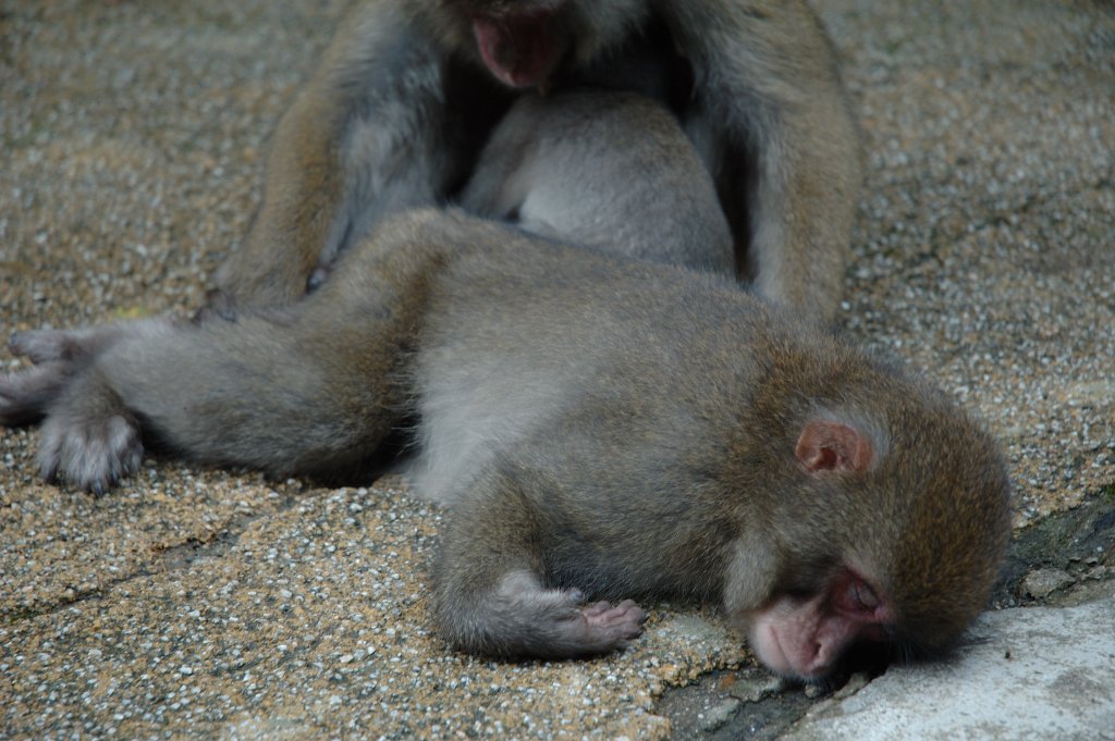 sleeping Japanese macaques in Kanba falls